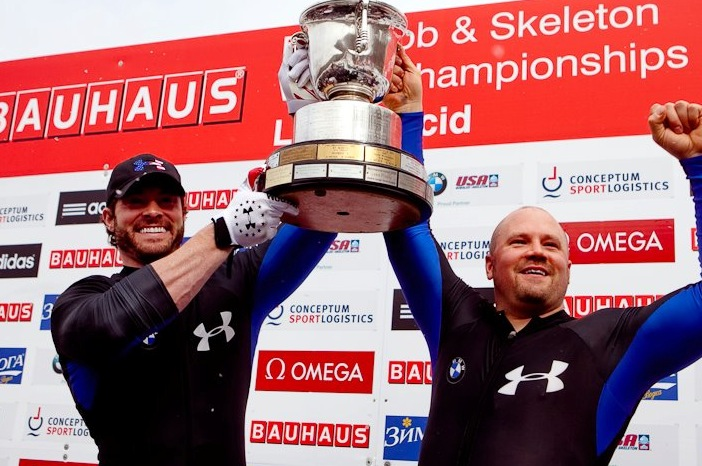 Steve Langton (L) and Steven Holcomb (R) after winning the 2012 2-Man World Championships in Men's Bobsled in February of 2012 in Lake Placid, New York.